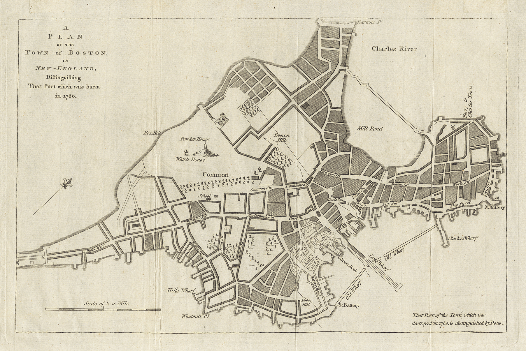 "A Plan of the Town of Boston, in New-England, Distinguishing That Part which was burnt in 1760."